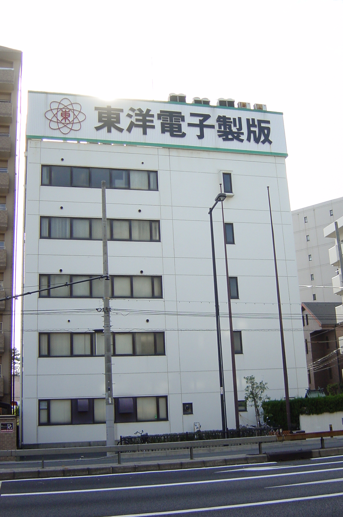 Kumata TDS